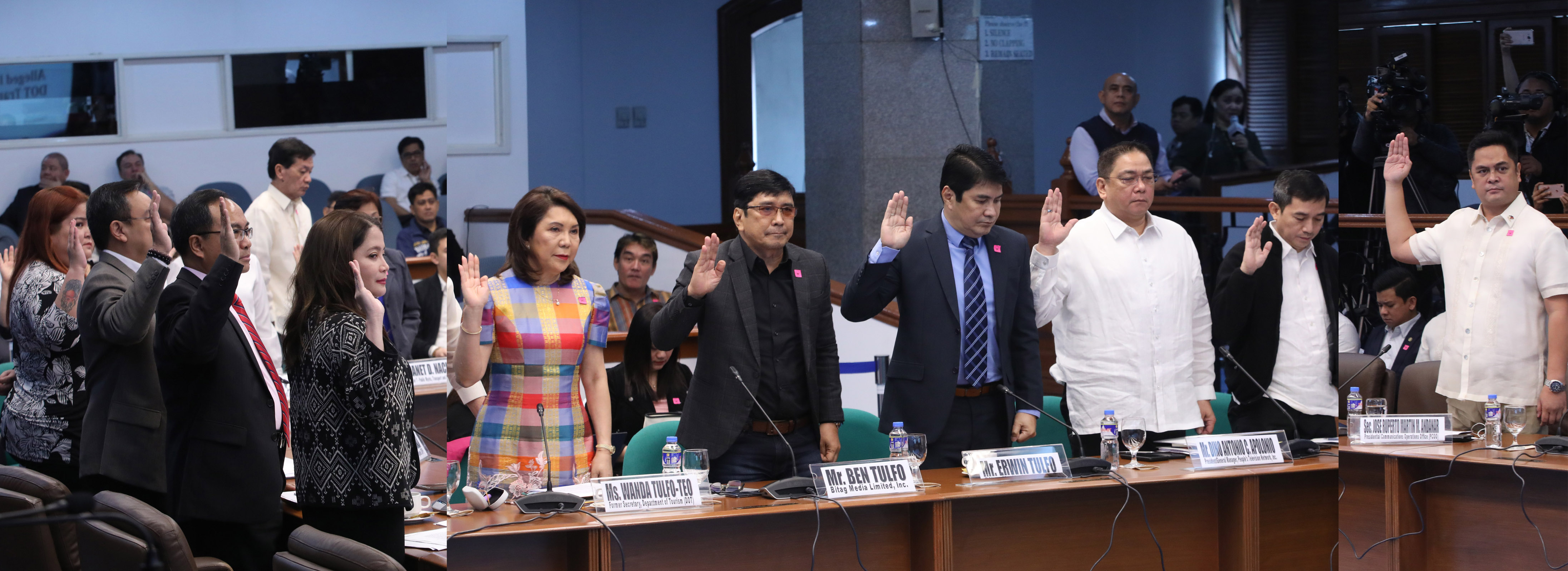 Inquiry on the Anomalous P60 Million Advertisement Placement made by the Department of Tourism -from (right)Presidential Communications Operations Office (PCOO) Secretary Jose Ruperto Martin M. Andanar , Ramon M. del Rosario of PTV Group Head,Programming / Airtime Management ,Mr. Dino Antonio C. Apolonio, PTV President/General Manager ,and TV Host Erwin, and Ben Tulfo,former DOT Secretary Wanda Tulfo Teo, DOT Secretary Bernadette Romulo Puyat, and government officials take their oath before the Senate inquiry on the Anomalous P60 Million Advertisement Placement made by the Department of Tourism (DOT) with Bitag Media Unlimited,Inc.,for Airtime in Kilos Pronto, A PTV-4 Program Produced and Co- Hosted by the Brothers of DOT Secretary Wanda Teo, at the Senate in Pasay City on Tuesday (August 14, 2018)